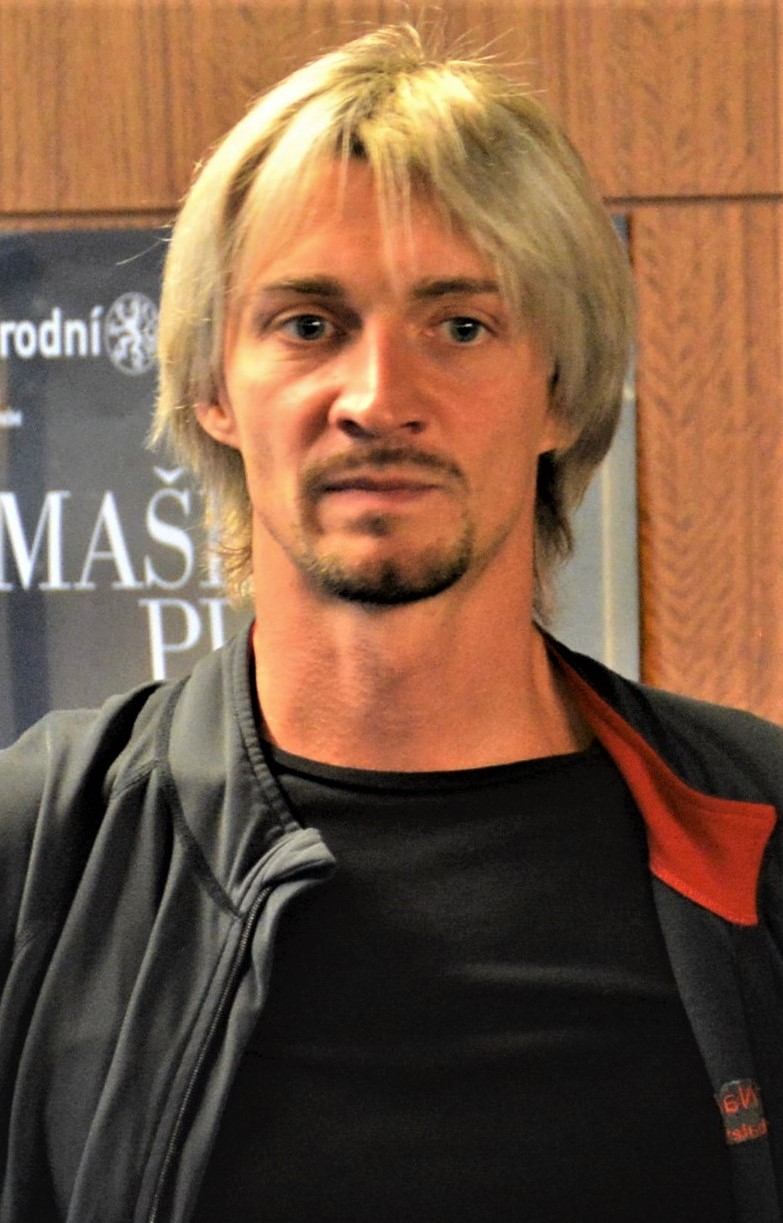 Michal Štípa, Czech dancer